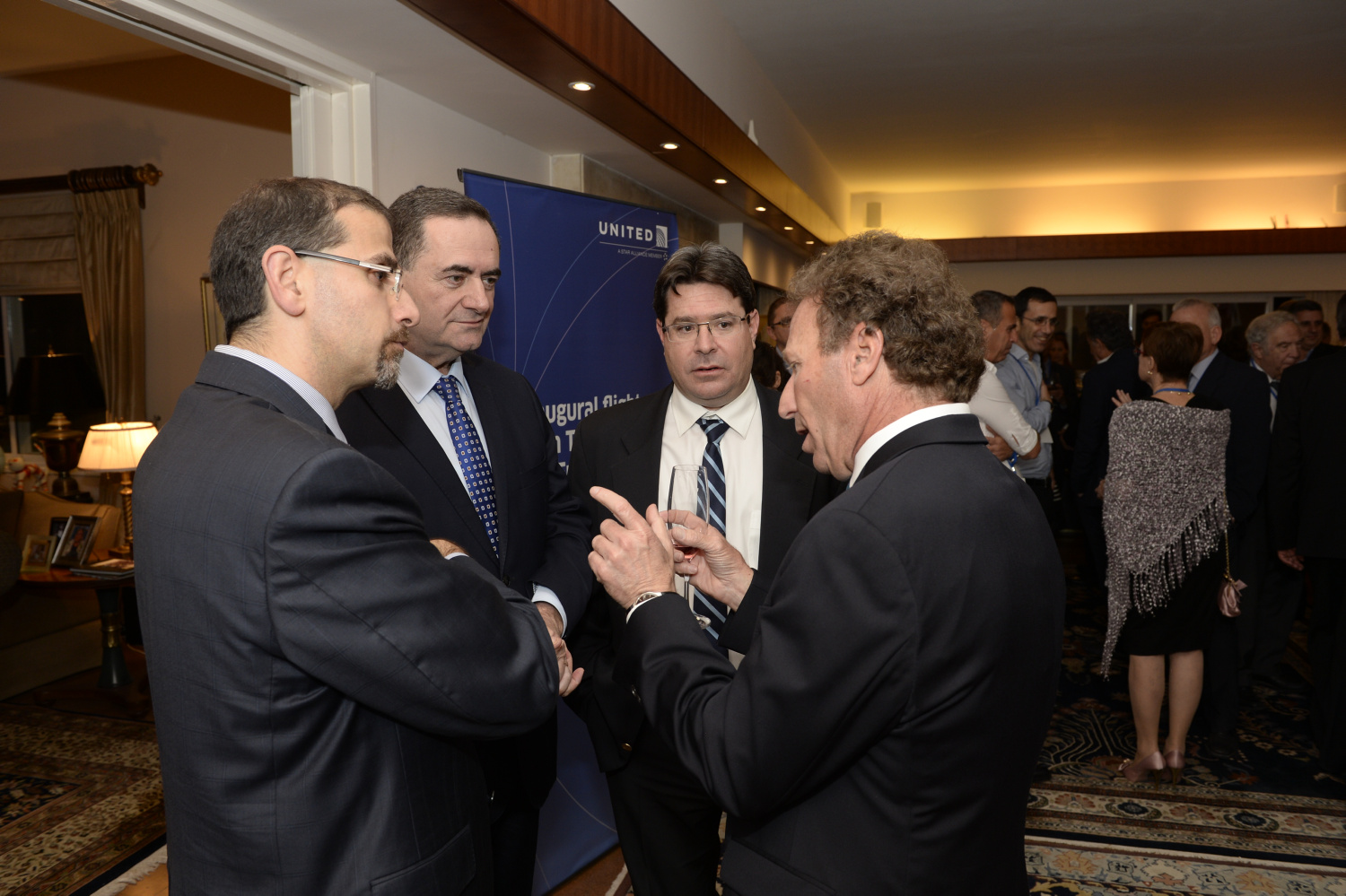 Inauguration of United flight from Tel Aviv to San Francisco. U.S. Ambassador Residence March 30, 2016